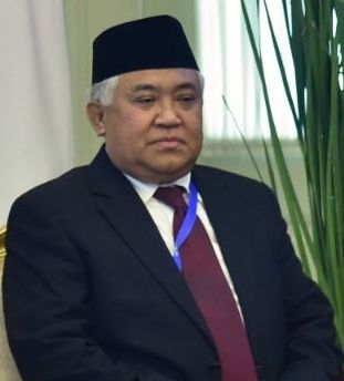 Din Syamsuddin, ulema of Indonesia and the former chairman of Muhammadiyah.